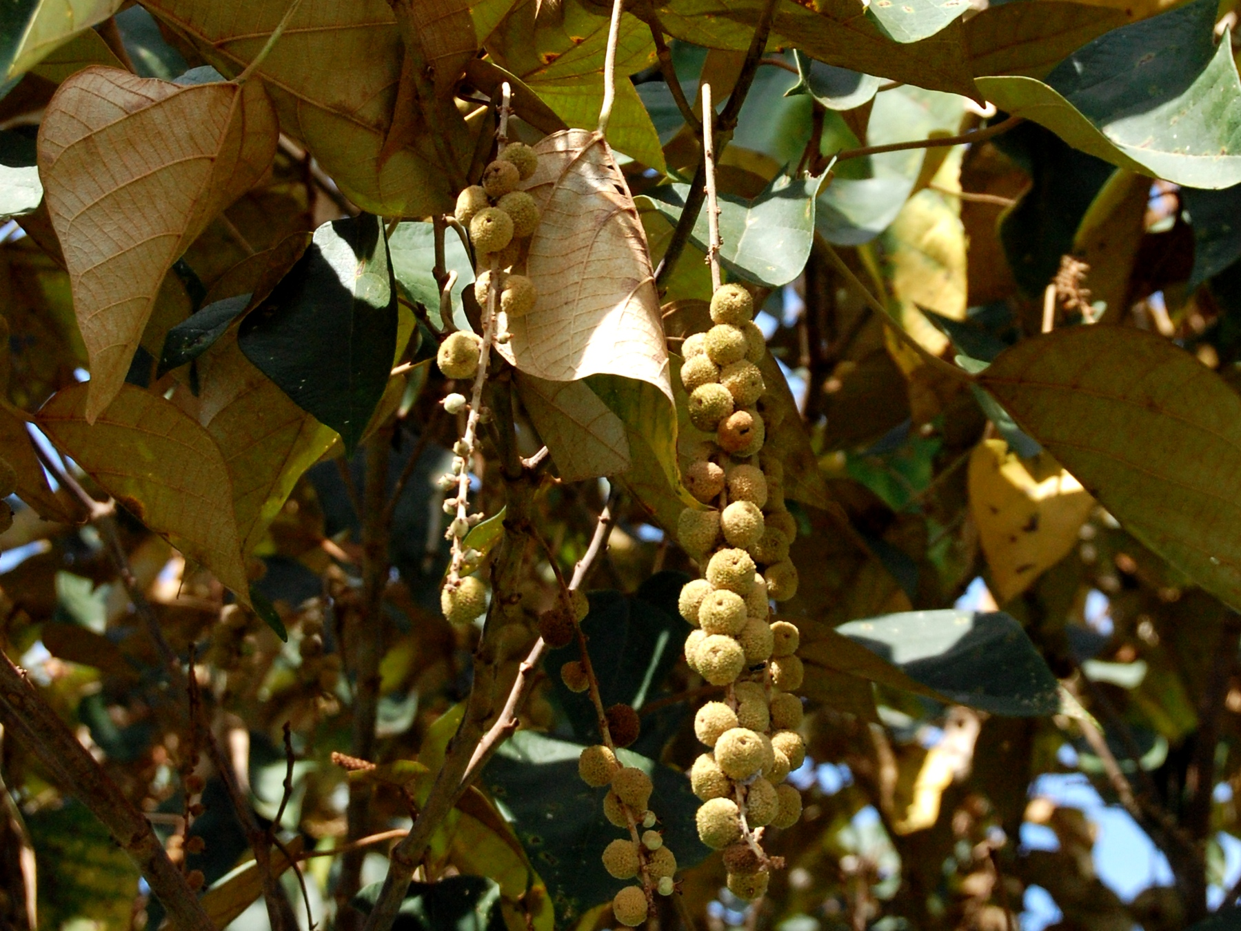 Mallotus macrostachyus; infructescences close up. From Central Kalimantan, Indonesia.